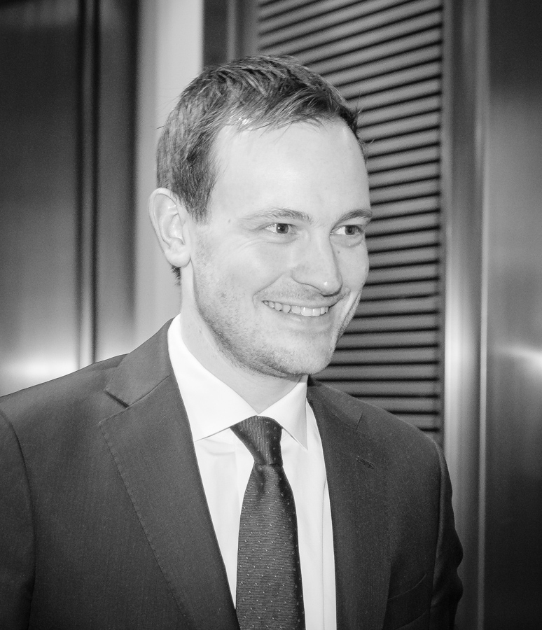 Member of Stortinget Sivert Bjørnstad at Governor Øystein Olsen's annual address in February 2018